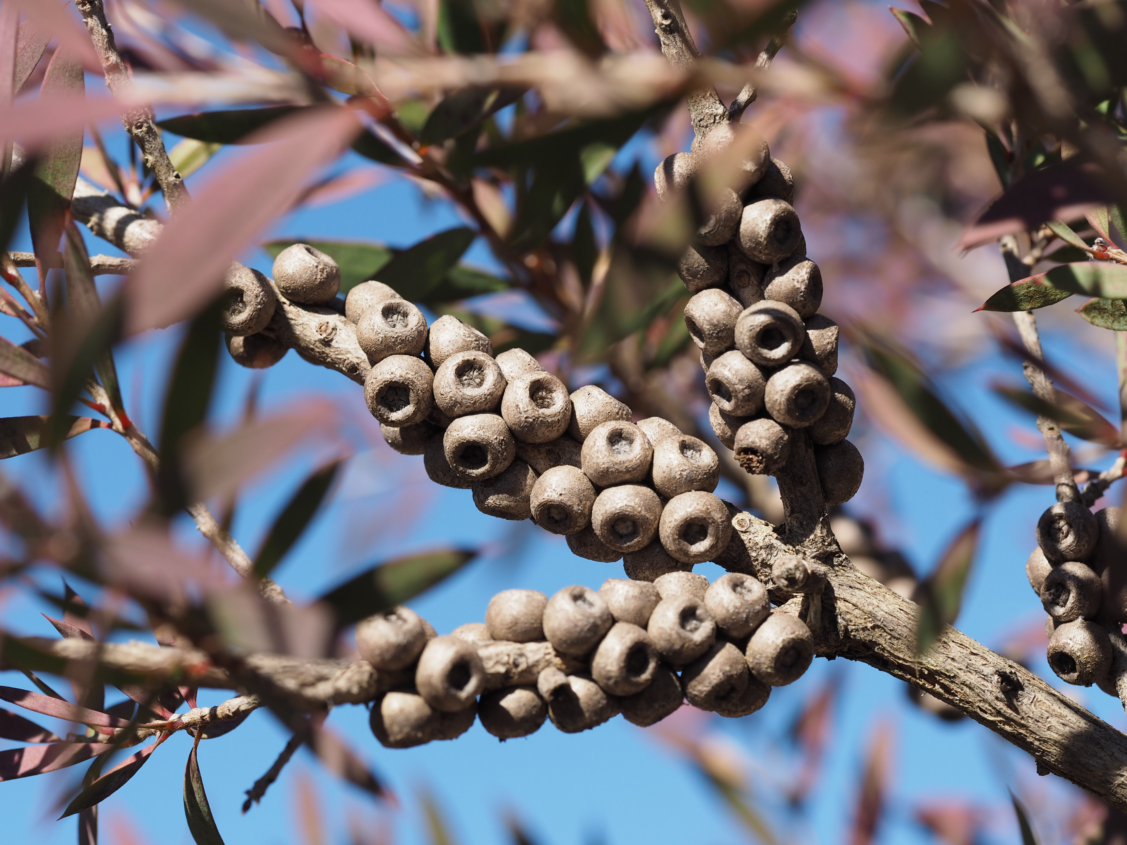 Melaleuca williamsii subsp. williamsii in winter, at the type location near Hillgrove.